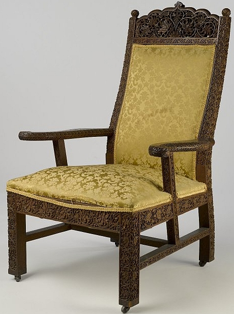 Armchair Designer: Lockwood de Forest, American, 1850-1932 Maker: Ahmedabad Wood Carving Company Medium: Teak, old but not original textile, metal Place Made: Ahmedabad, India Dates: ca. 1895